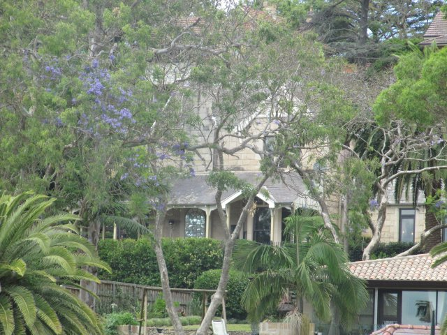 Hestock